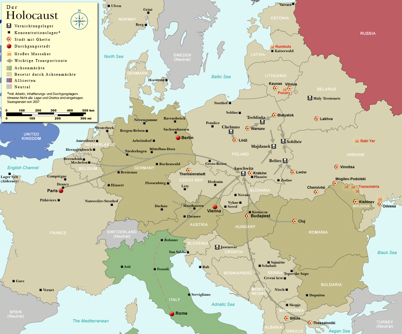 Map (with German legend) of the Holocaust in Europe during World War II, 1939-1945. This map shows all German Nazi extermination camps (or death camps), most major concentration camps, labor camps, prison camps, ghettos, major deportation routes and major massacre sites. Please note that a version with 1942 borders is available here: Image:WW2-Holocaust-Europe.png. Notes: 1. Extermination camps were dedicated death camps, but all camps and ghettos took a toll of many, many lives. 2. Concentration camps include labor camps, prison camps & transit camps. 3. Not all camps & ghettos are shown. 4. Borders are present borders (2007).